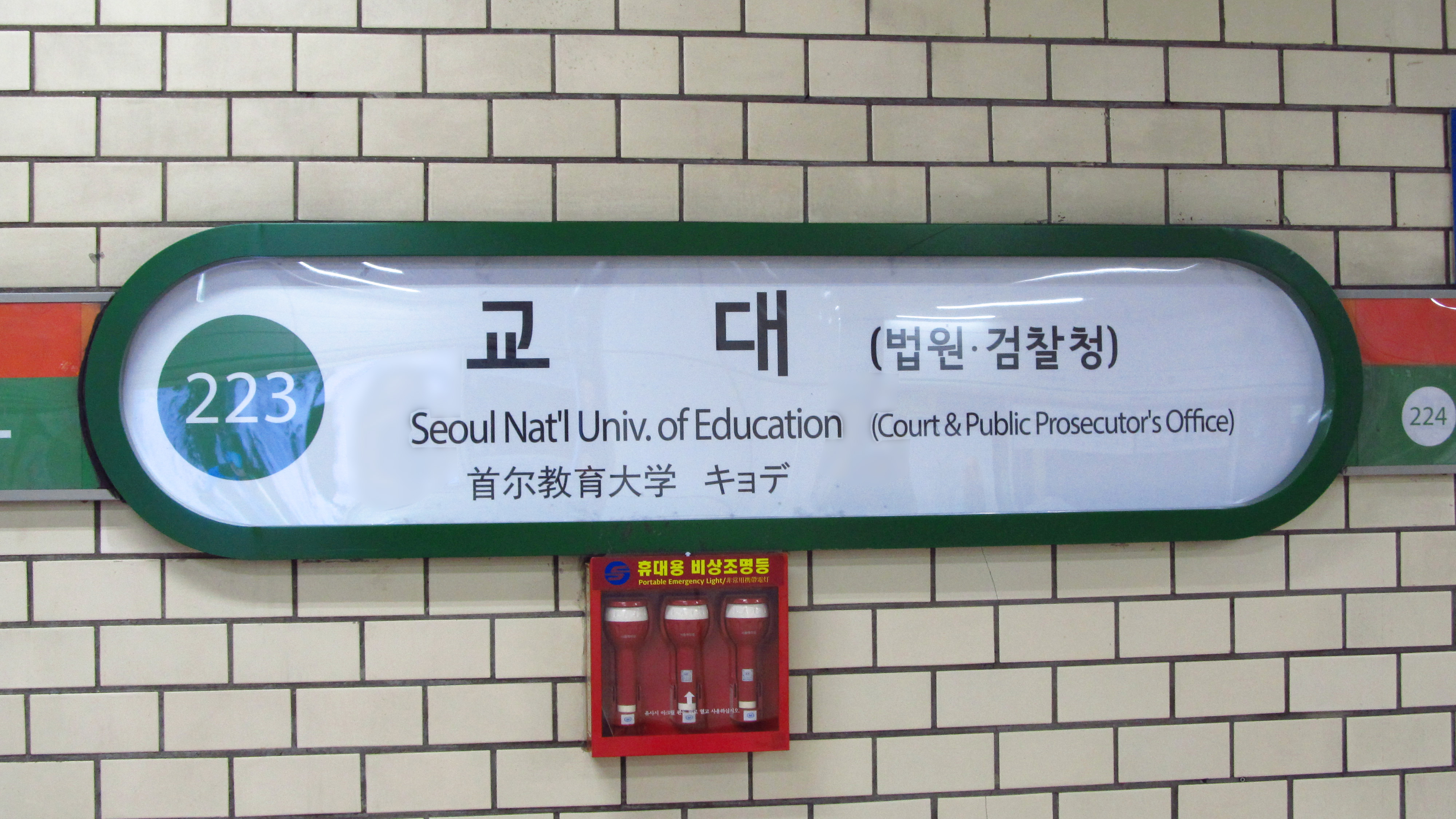 A sign of Seoul National University of Education Station on Seoul Subway Line 2